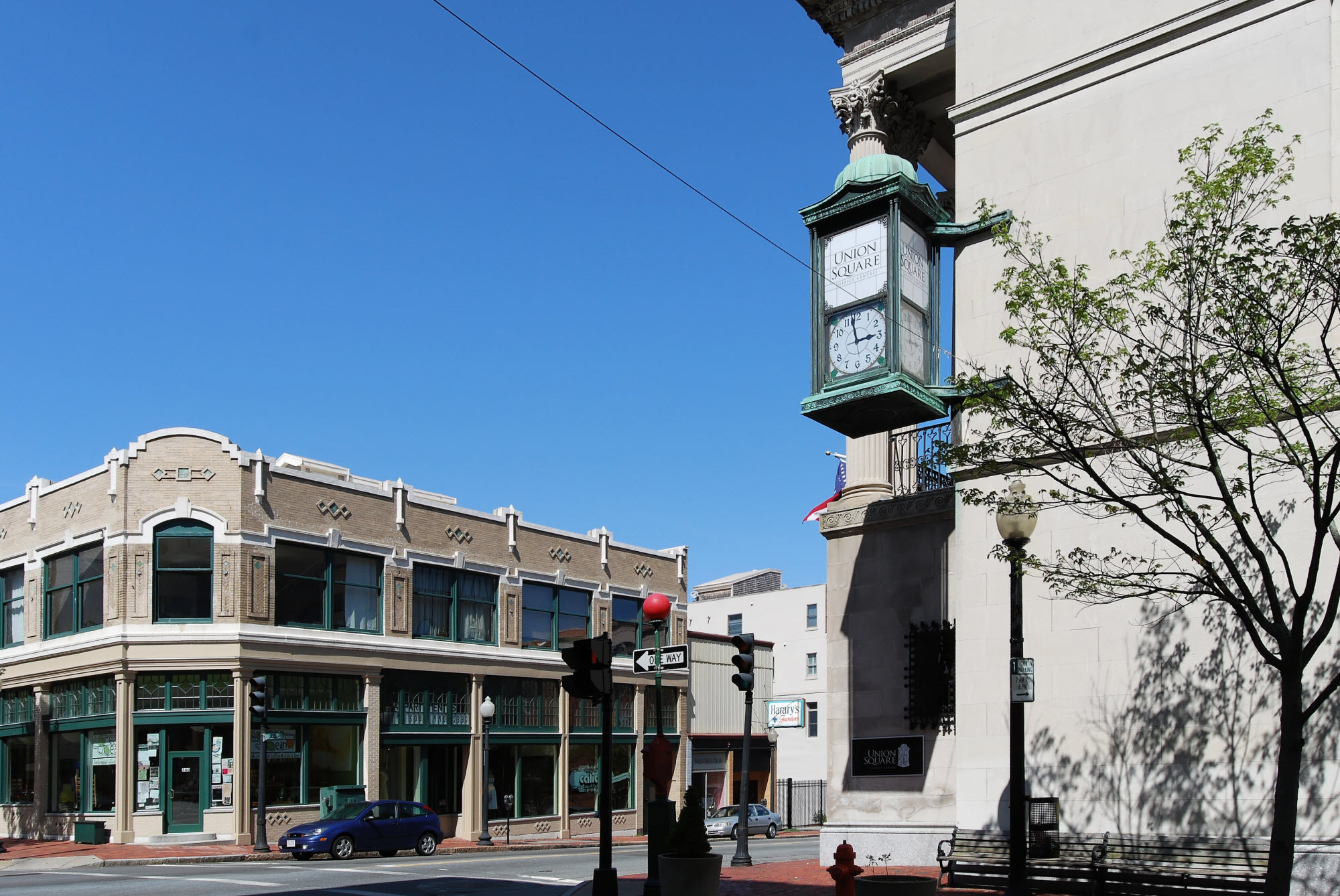 Union Square, Downtown New Bedford, Massachusetts